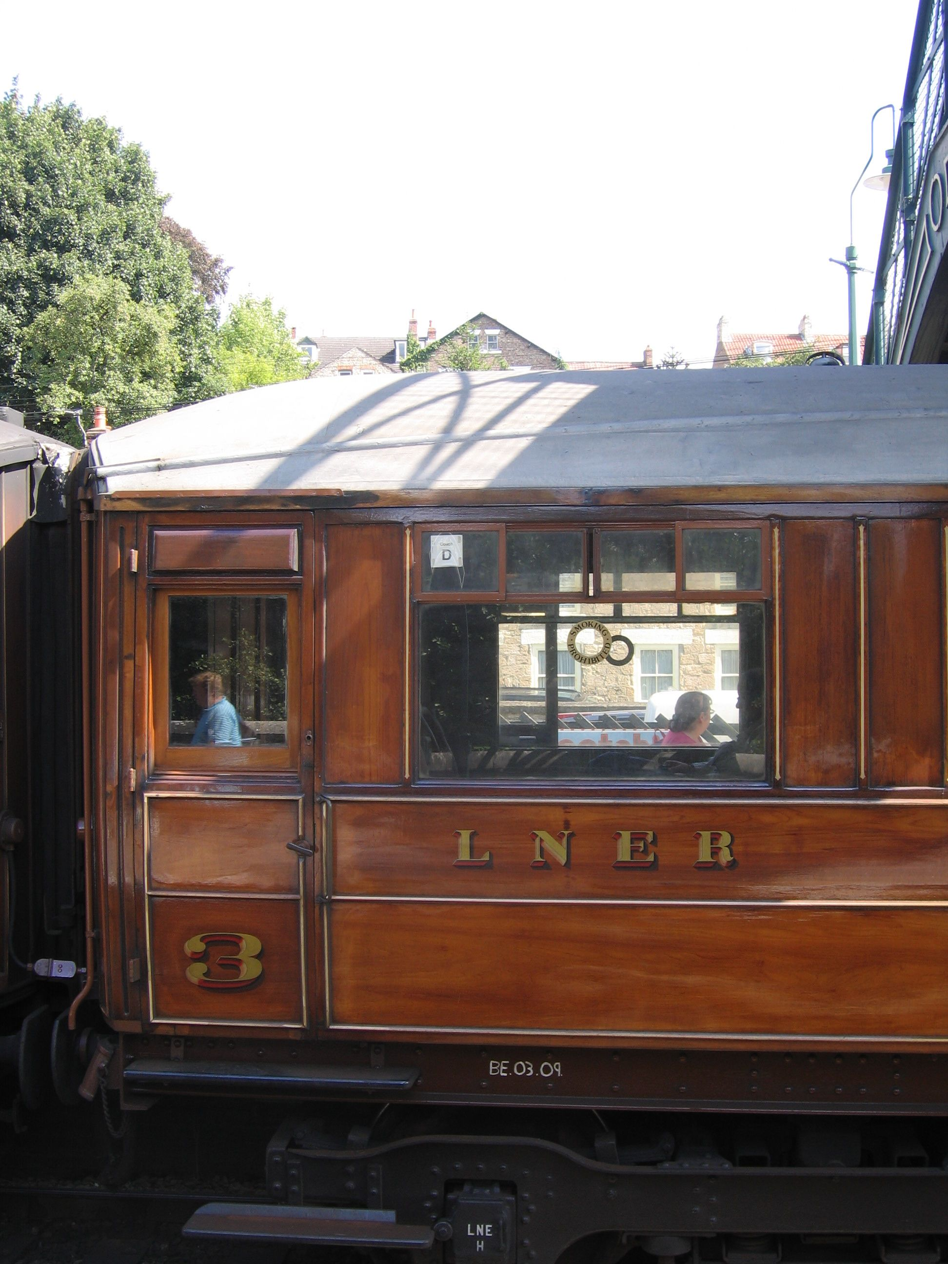 Coach of LNER, NYMR